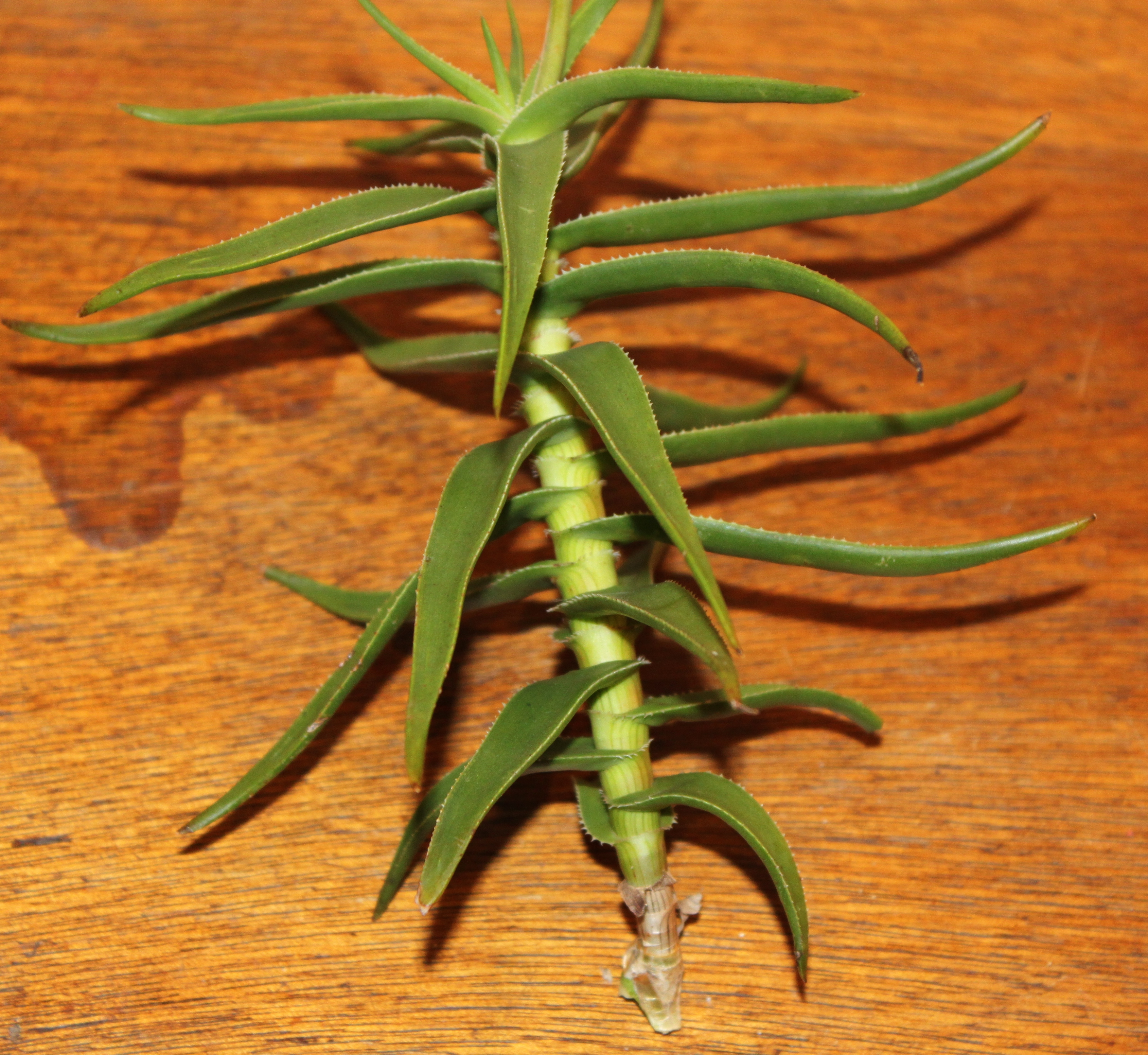 Aloe ciliaris tidmarshii. Aloe tidmarshii. South Africa.